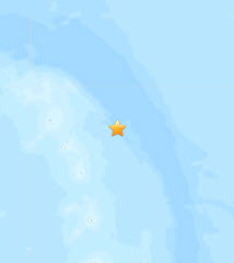 M 6.3 - South Sandwich Islands region 2010-12-08 05:24:35 (UTC)